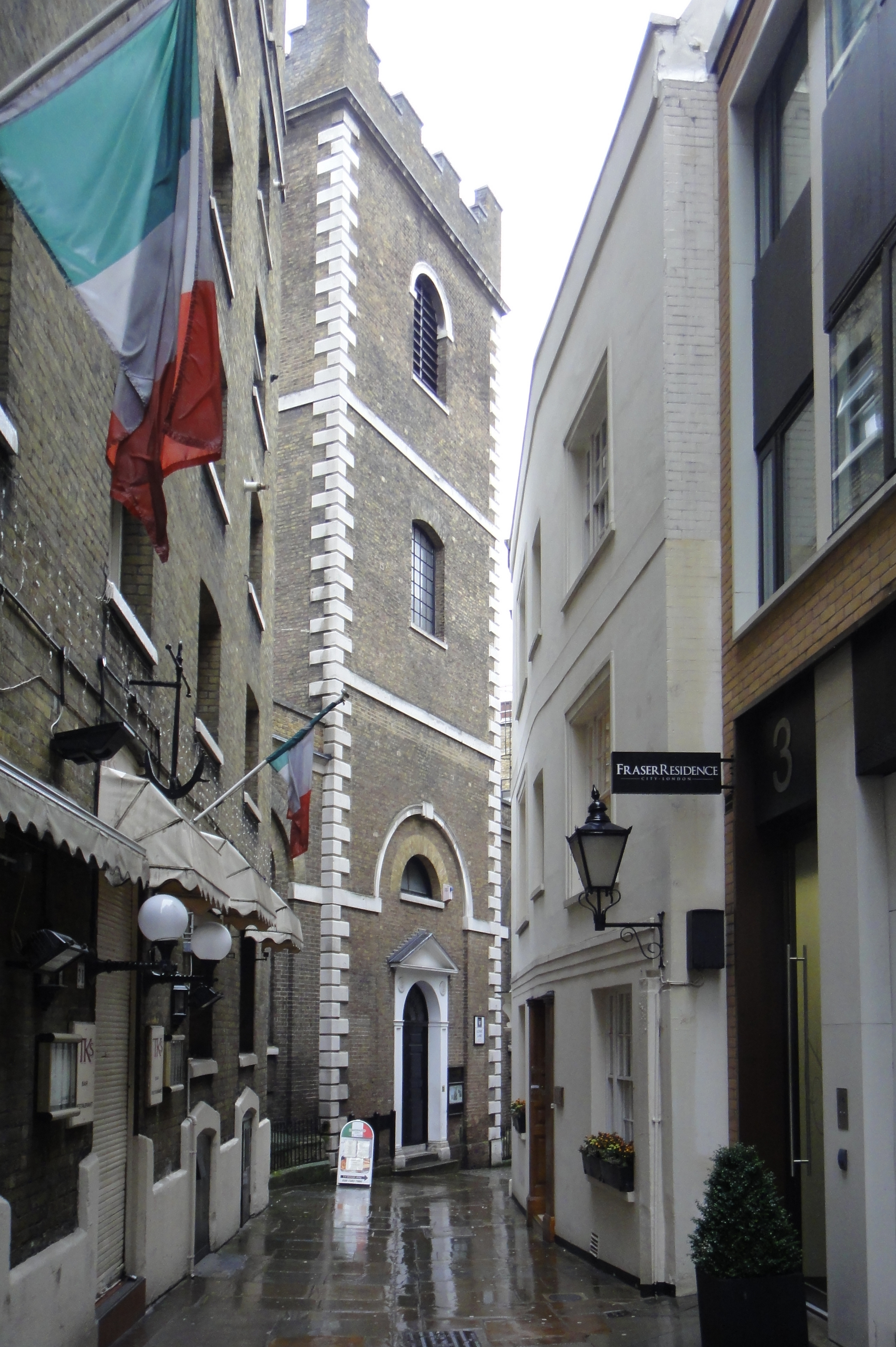 St-Mary-at-Hill, City of London. Seen from Lovat Lane